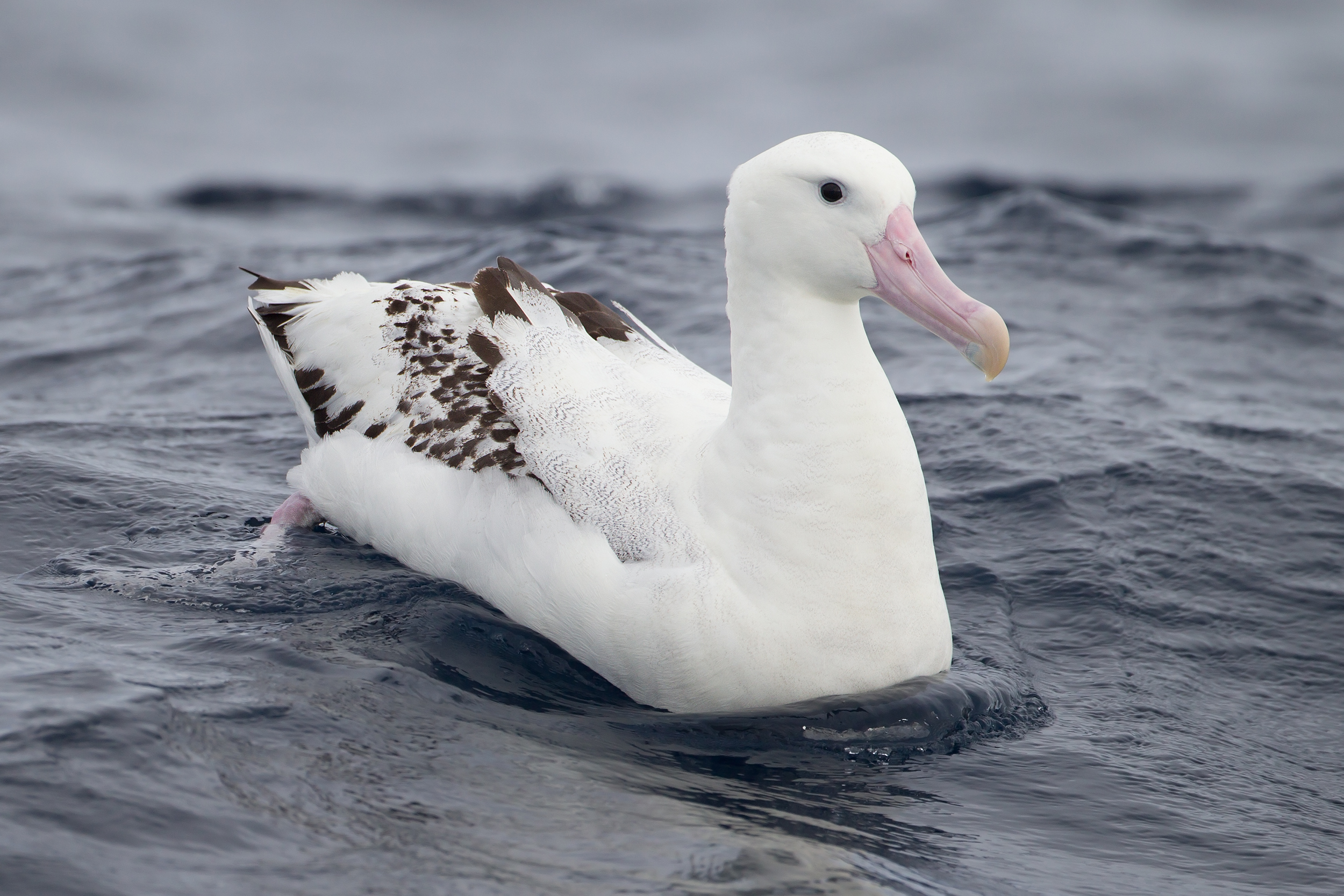 Gibson's Albatross (Diomedea gibsoni), East of the Tasman Peninsula, Tasmania, Australia